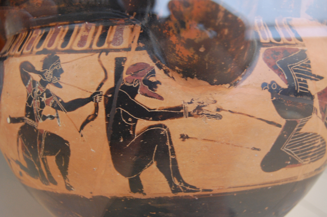 Prometheus stauros. Heracles frees the Titan Prometheus and kills the eagle that was devouring its liver.